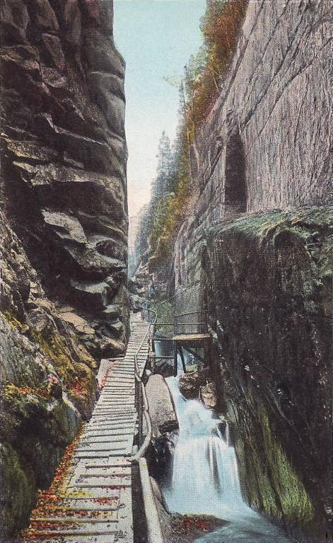 The Flume, Franconia Notch, White Mountains, New Hampshire